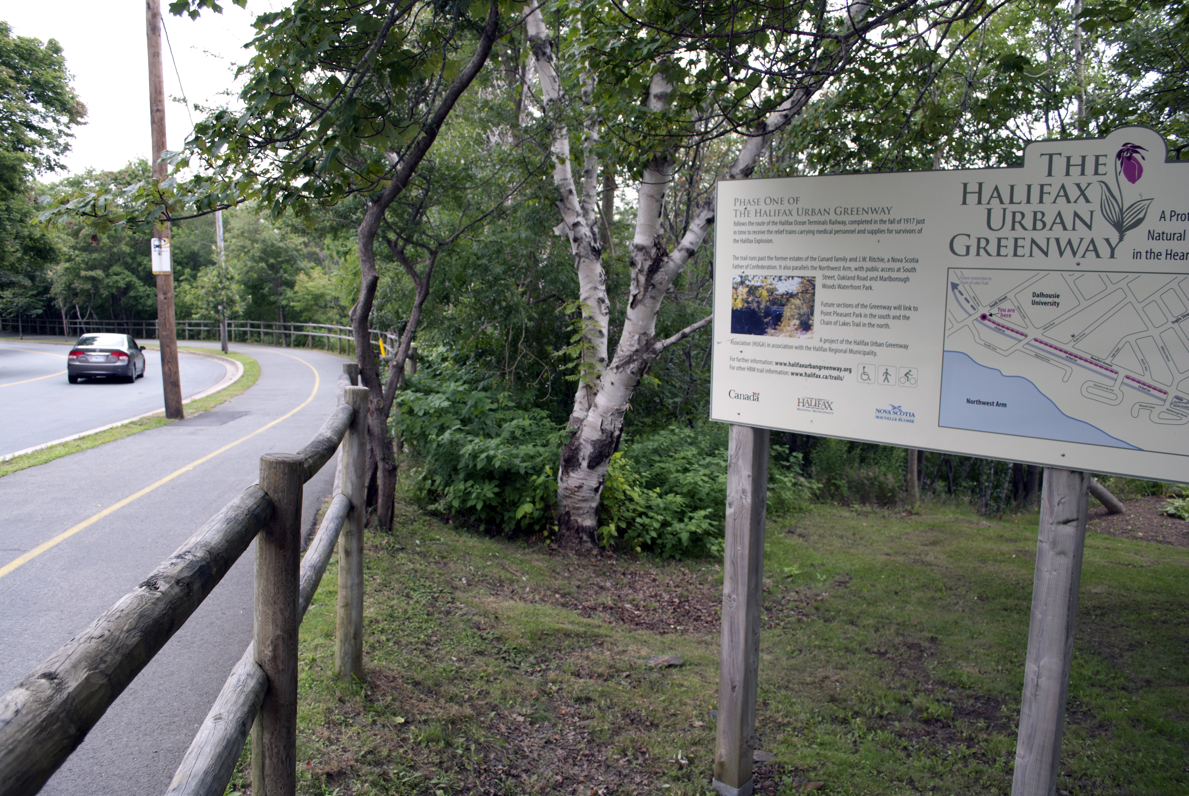 Start of the first section of the Halifax Urban Greenway Association (HUGA) trail.